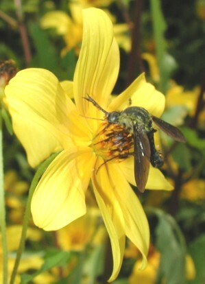 Bombyliid fly on Bidens laevis Image copyleft: Image taken by me, released under GFDL Pollinator 05:48, Sep 19, 2004 (UTC) I think this is Lepidophora. JerryFriedman (talk) 23:21, 8 October 2011 (UTC)